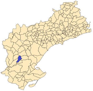 Xerta